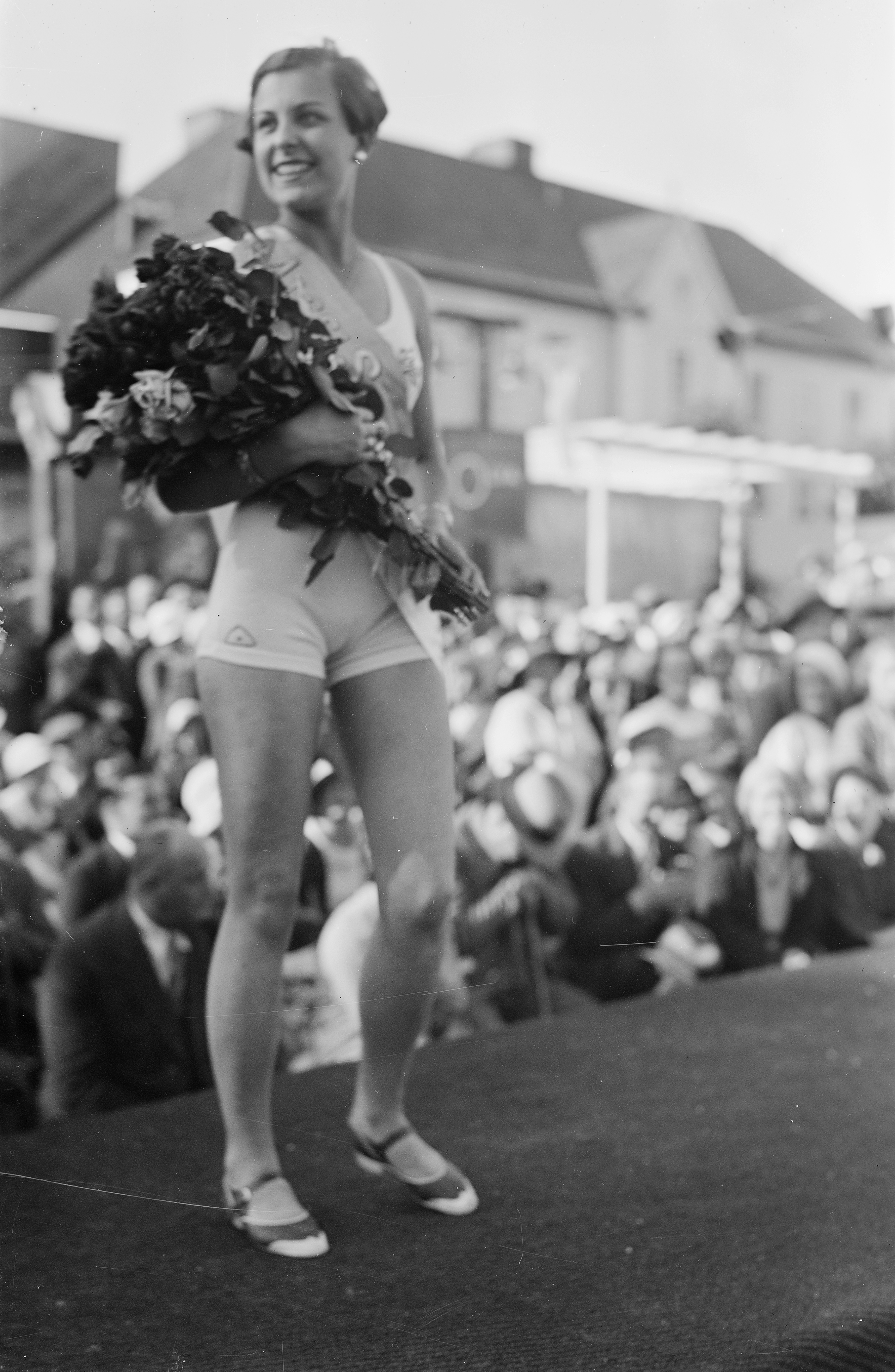 Miss Finland 1934, Anna-Lisa Fahler after winning the competition at Golf Casino in Helsinki. This photograph is in the public domain in Finland, because either a period of 50 years has elapsed from the year of creation or the photograph was first published before 1966. The section 49a of the Finnish Copyright Act (404/1961, amended 607/2015) specifies that photographs not considered to be "works of art" become public domain 50 years after they were created. The 50 years from creation protection period came into force in 1991. Before that the protection period was 25 years from the year of first publication according to the §16 of the law of protection of photographs of 1961. Material already released to public domain according to the 1961 law remains in public domain, and therefore all photographs (but not photographic works of art) released before 1966 are in the public domain. See Commons:Copyright rules by territory/Finland for details. If you think this picture should be considered a work of art, nominate it for deletion.To uploader: Please provide where the image was first published and who created it.The material with this copyright tag should not be used on the German-language Wikipedia. See Talk page of this template. This work is in the public domain in the United States because it meets three requirements: it was first published outside the United States (and not published in the U.S. within 30 days), it was first published before 1 March 1989 without copyright notice or before 1964 without copyright renewal or before the source country established copyright relations with the United States, it was in the public domain in its home country on the URAA date (January 1, 1996 for most countries). For background information, see the explanations on Non-U.S. copyrights.Note: This tag should not be used for sound recordings.